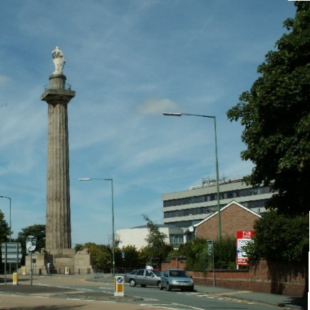 Lord Hill's Column.Shrewsbury Listed Grade II* [1]